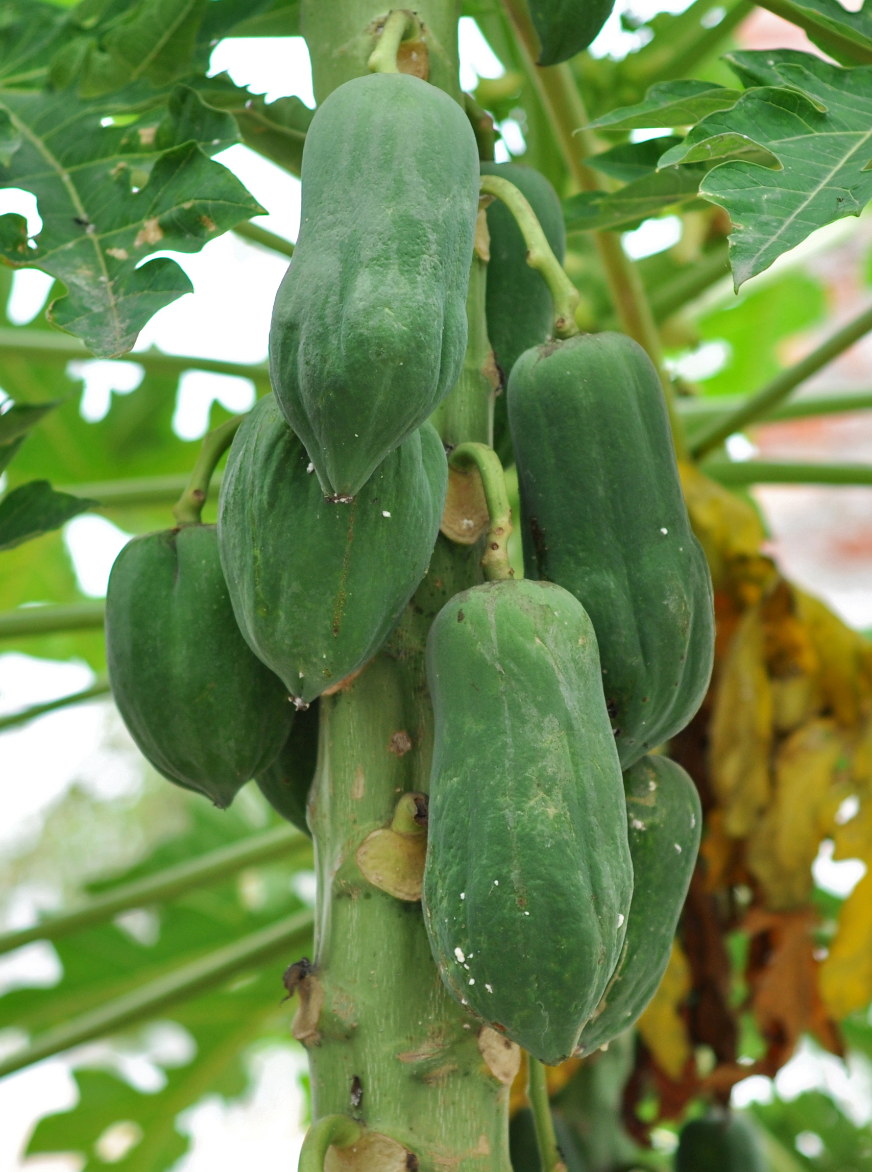 Carica papaya